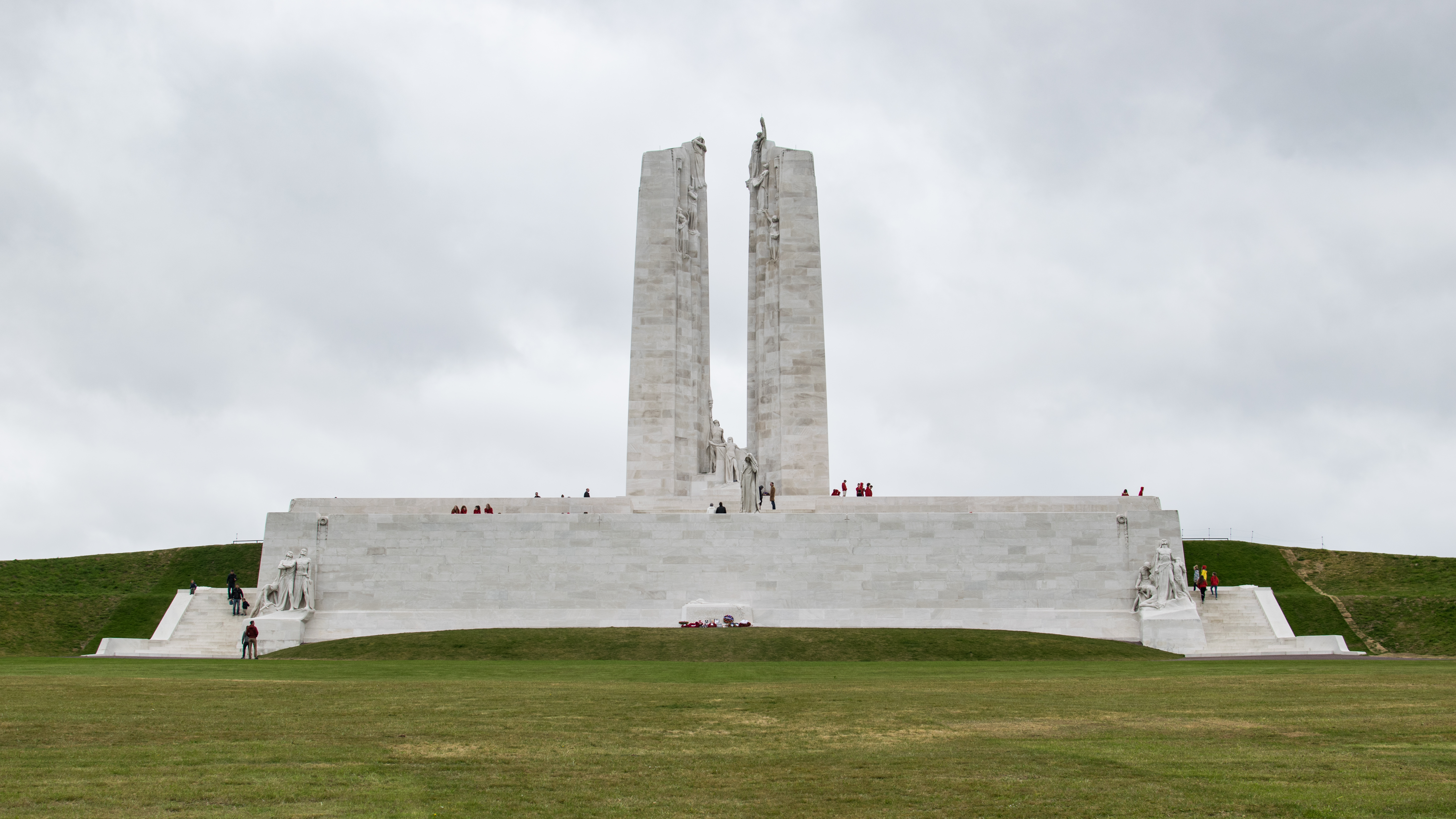 The Canadian National Vimy Memorial, France.